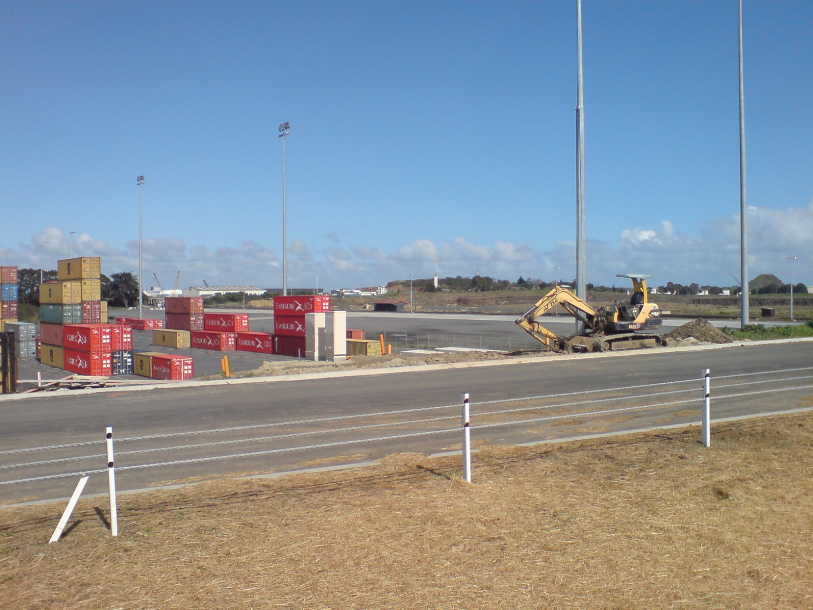 Wiri Train Station (not Westfield Train Station after all) in Auckland, New Zealand. Looking southwest from the new section of SH20 motorway on Open Day. The new EMU depot will be located here.